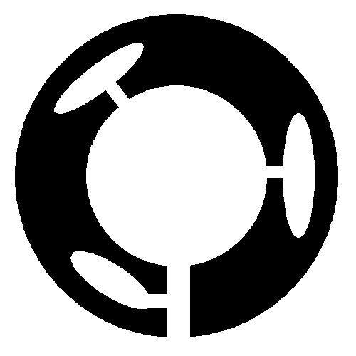 Scematic representation of the ground-plan of a solid-based broch